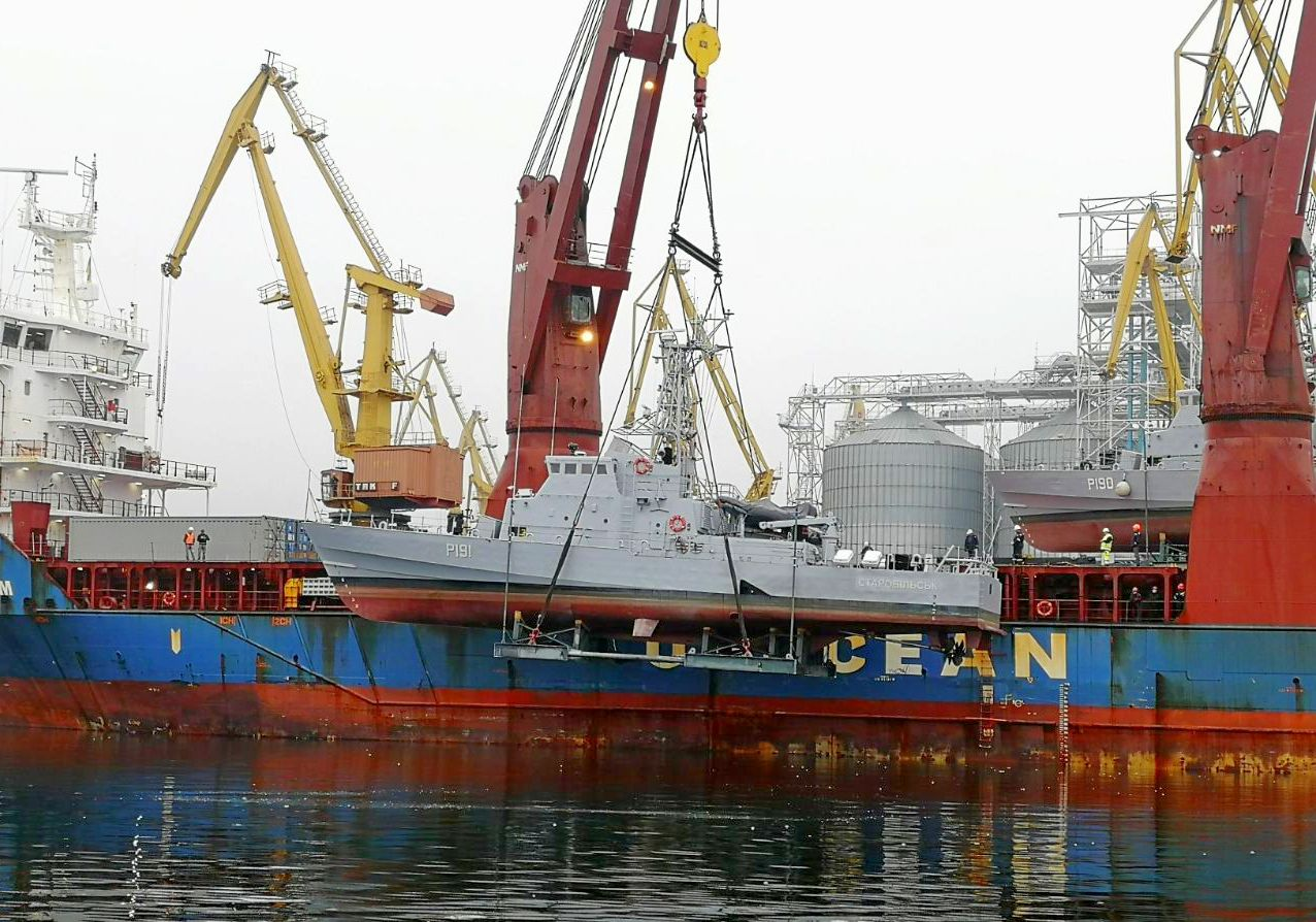 Unloading of P191 Starobilsk.